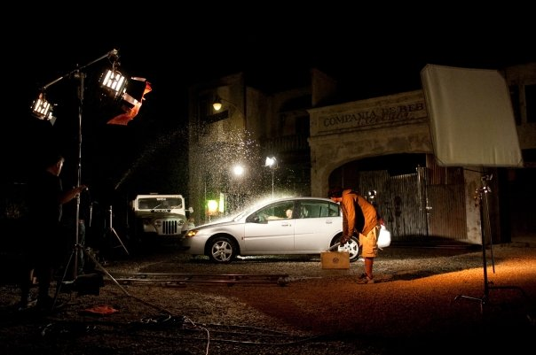 Students working on the on-campus film set called "The Mexican Village".